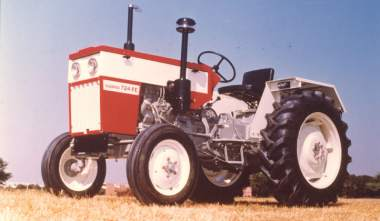 Swaraj Tractor developed by CMERI